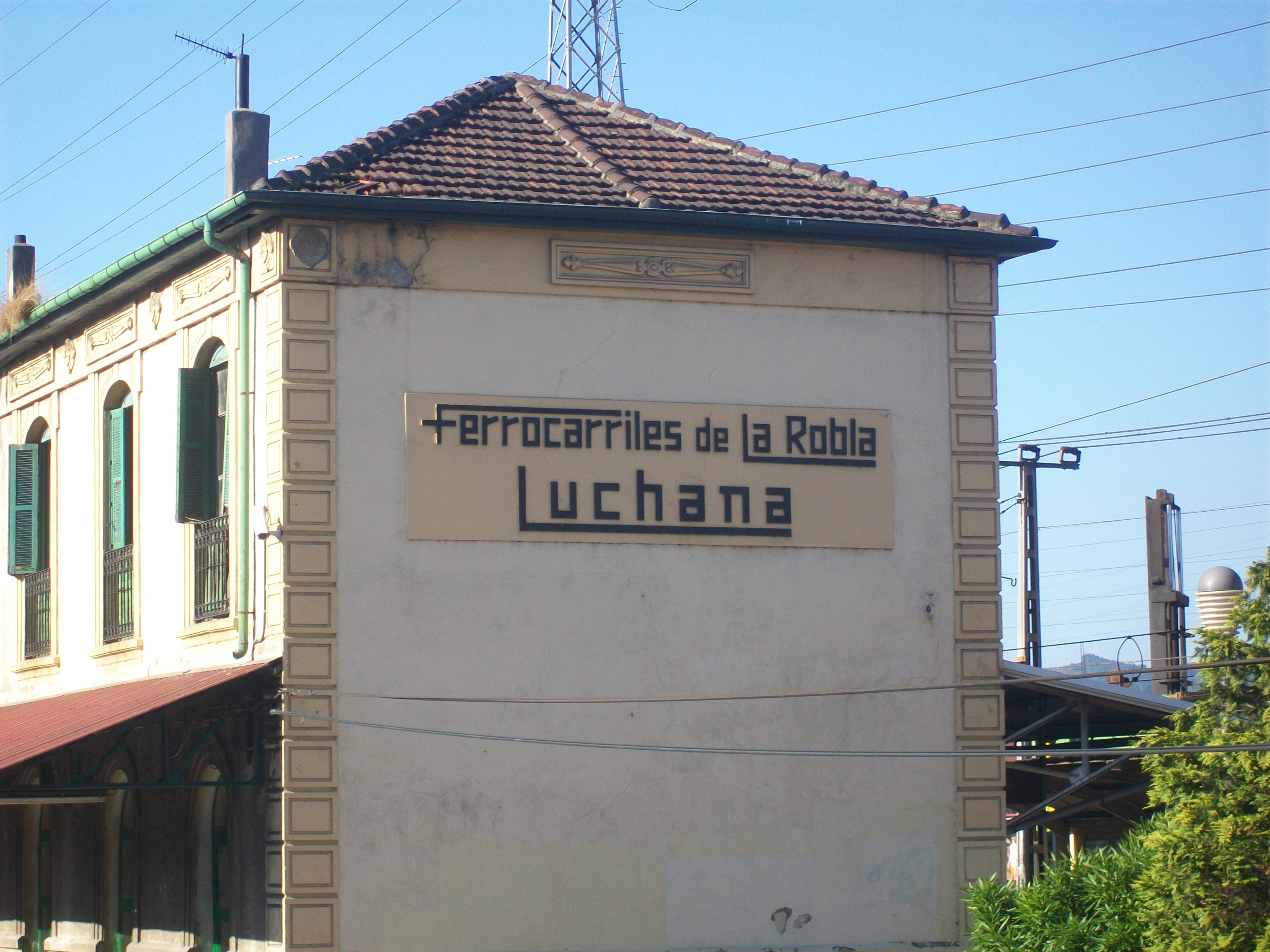 Sign of La Robla Railway at Luchana Baracaldo station in Barakaldo.